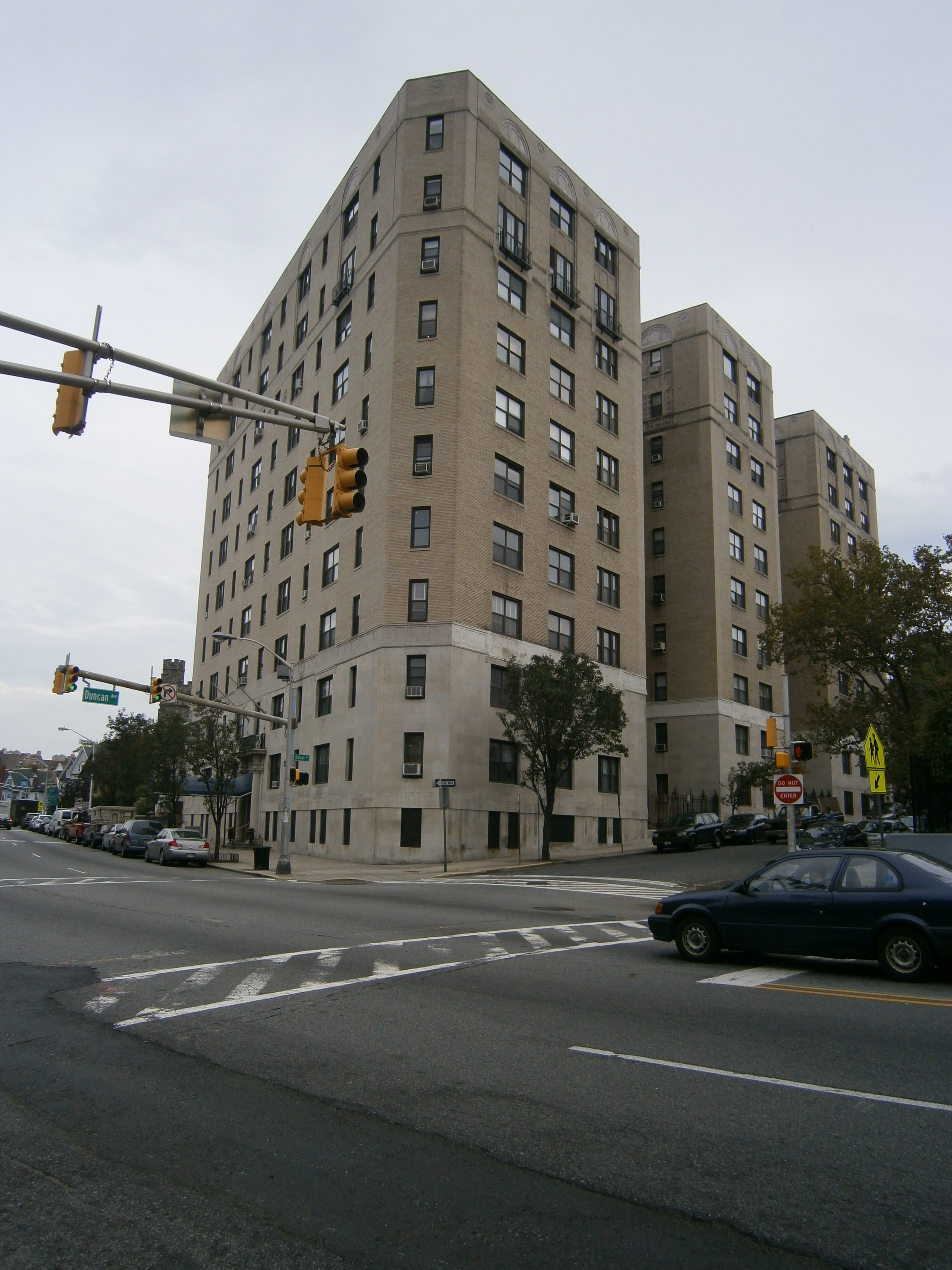 At Kennedy Boulevard and Duncan Ave in the Bergen Section of Jersey City, pre-war bldg is named for city's most notorious mayor